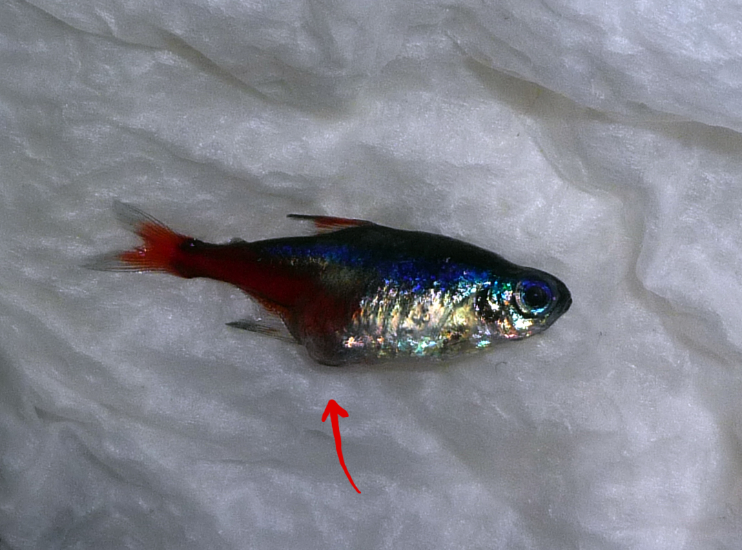 Hydropsy (Paracheirodon innesi)